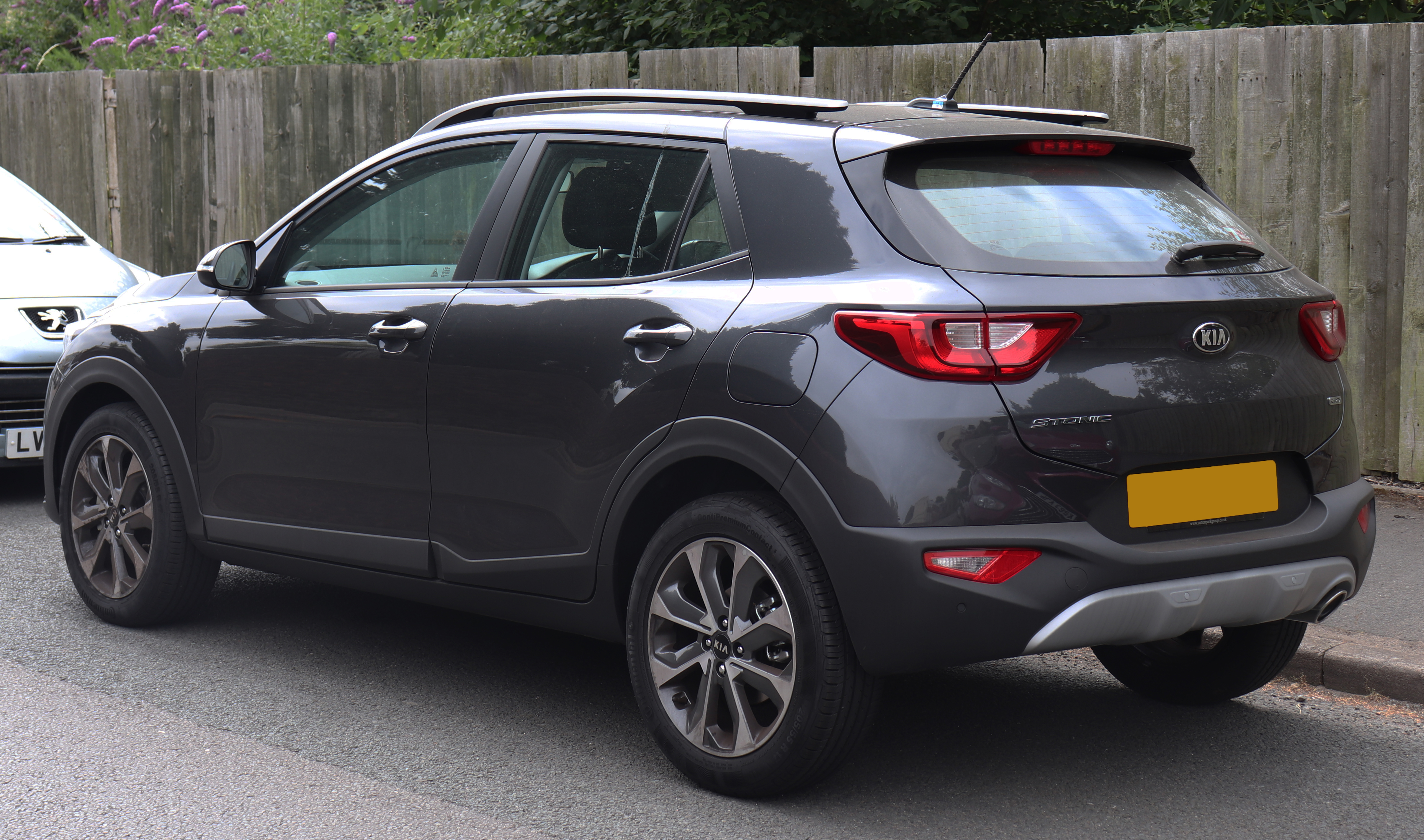 2018 Kia Stonic 2 ISG CRDi 1.6 Rear Taken in Warwick